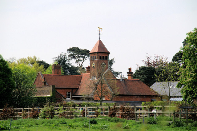 Photo of the stable block at Capel Manor, Bulls Cross, Enfield. The building's weather vane depicts a Clydesdale horse